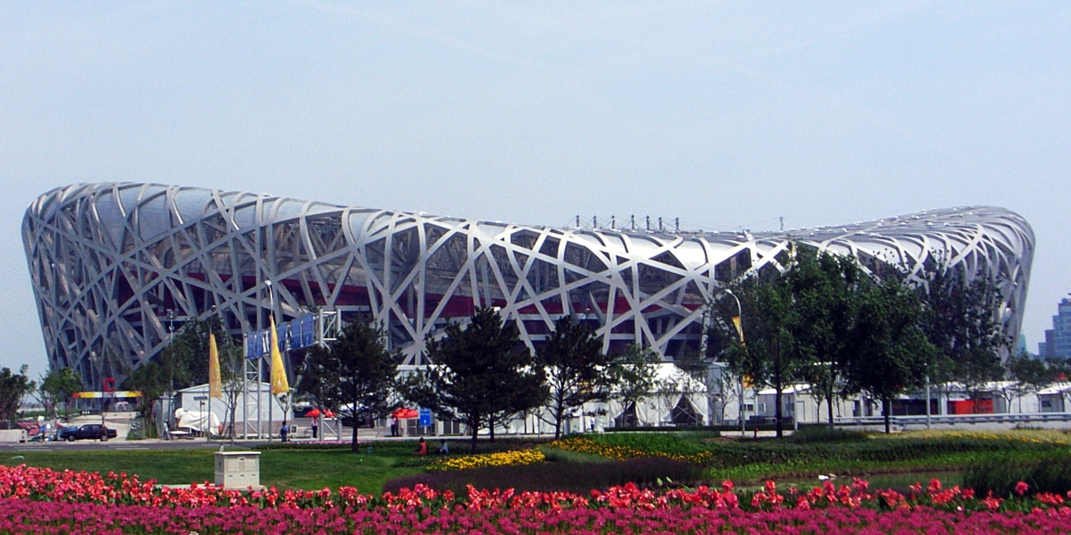 A distant view of the Olympic Green and the Beijing National Stadium, 2008. Cropped version of Image:远眺“鸟巢” "bird's nest" distant view.jpg